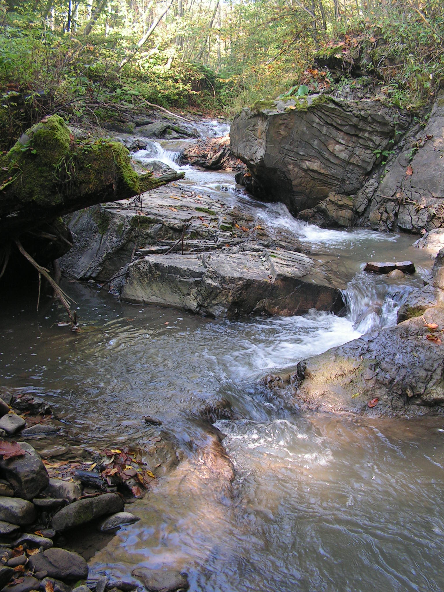 Zbojský potok Creek of Zboj